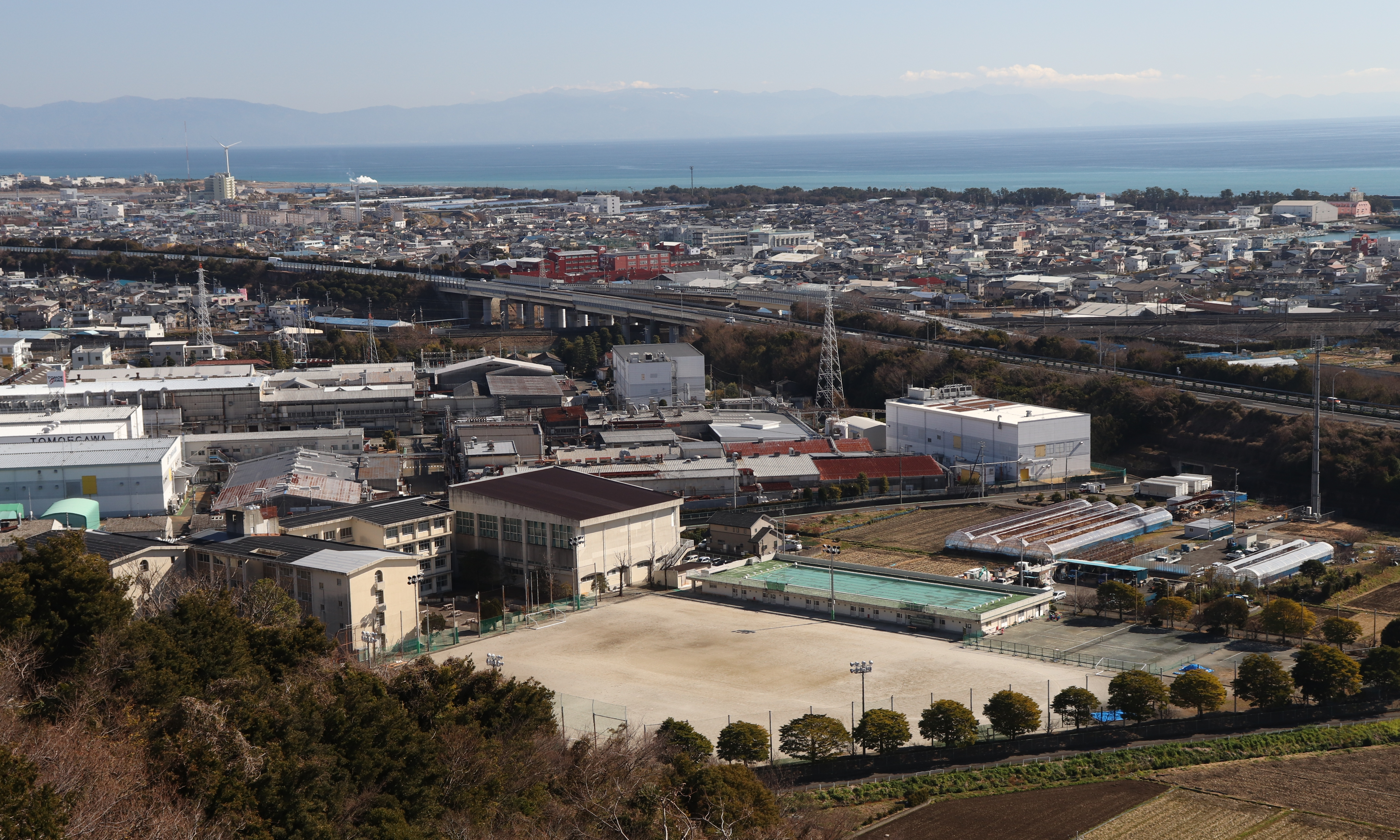 Shizuoka City Shiroyama Junior high school in Suruga-ku, Shizuoka City, Shizuoka Prefecture, Japan. Canon EOS Kiss X9